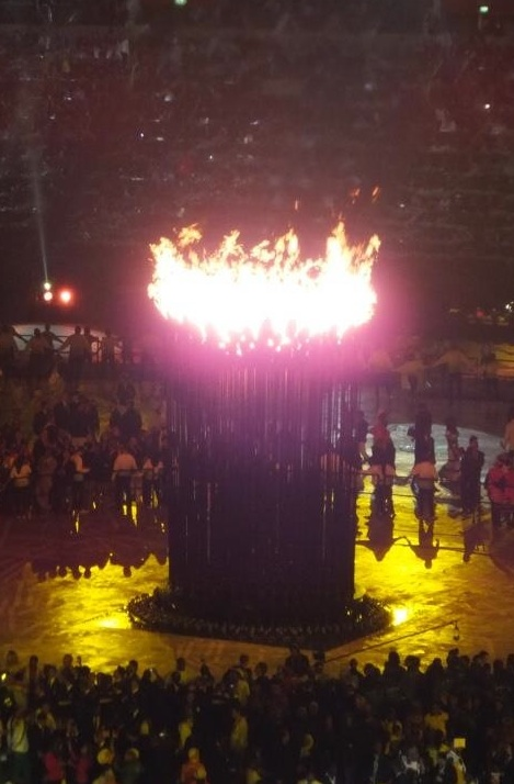 Olympic Cauldron after being lit at the London 2012 Olympic Games Opening Ceremony